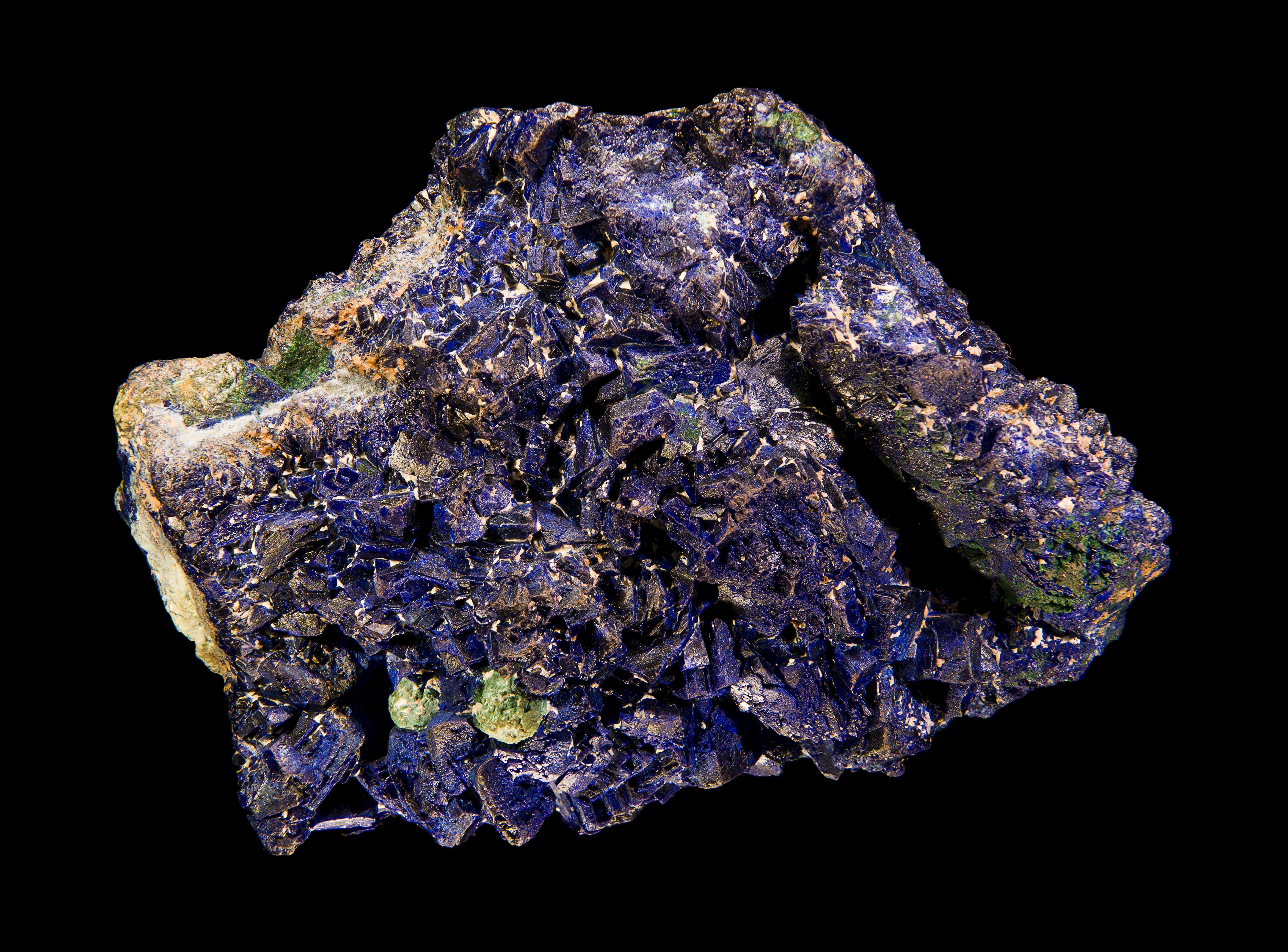 Azurite "Chessylite"` Locality : Chessy les mines - Rhône - France - Deposite topotype Size 8x6cm